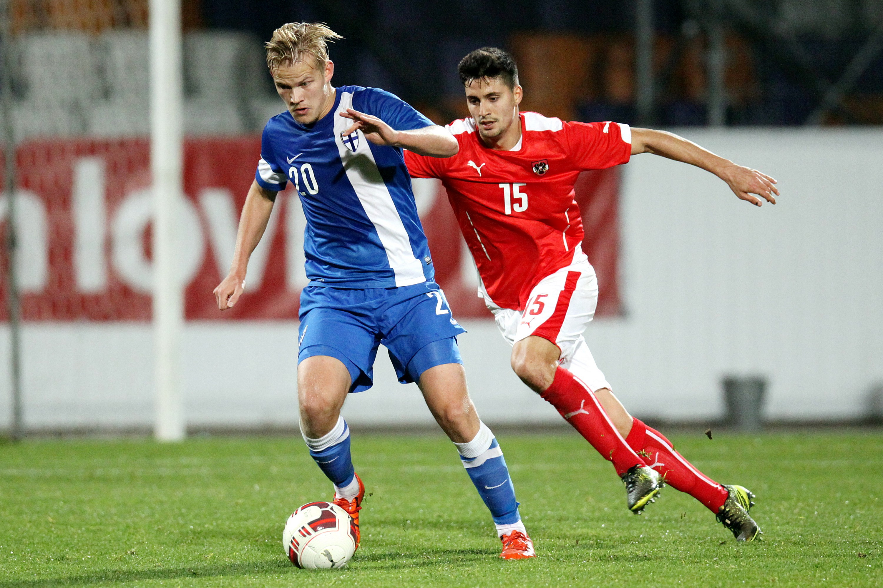 2017 UEFA European Under-21 Championship qualification – Austria U-21 (red shirts) vs. :en:Finland national under-21 football team |Finnland U-21 (blue shirts) 2-0 (0-0) – 2015-11-13 in Vienna, Austria Arena – The photo shows Joel Pohjanpalo (left) and Tarkan Serbest (right).